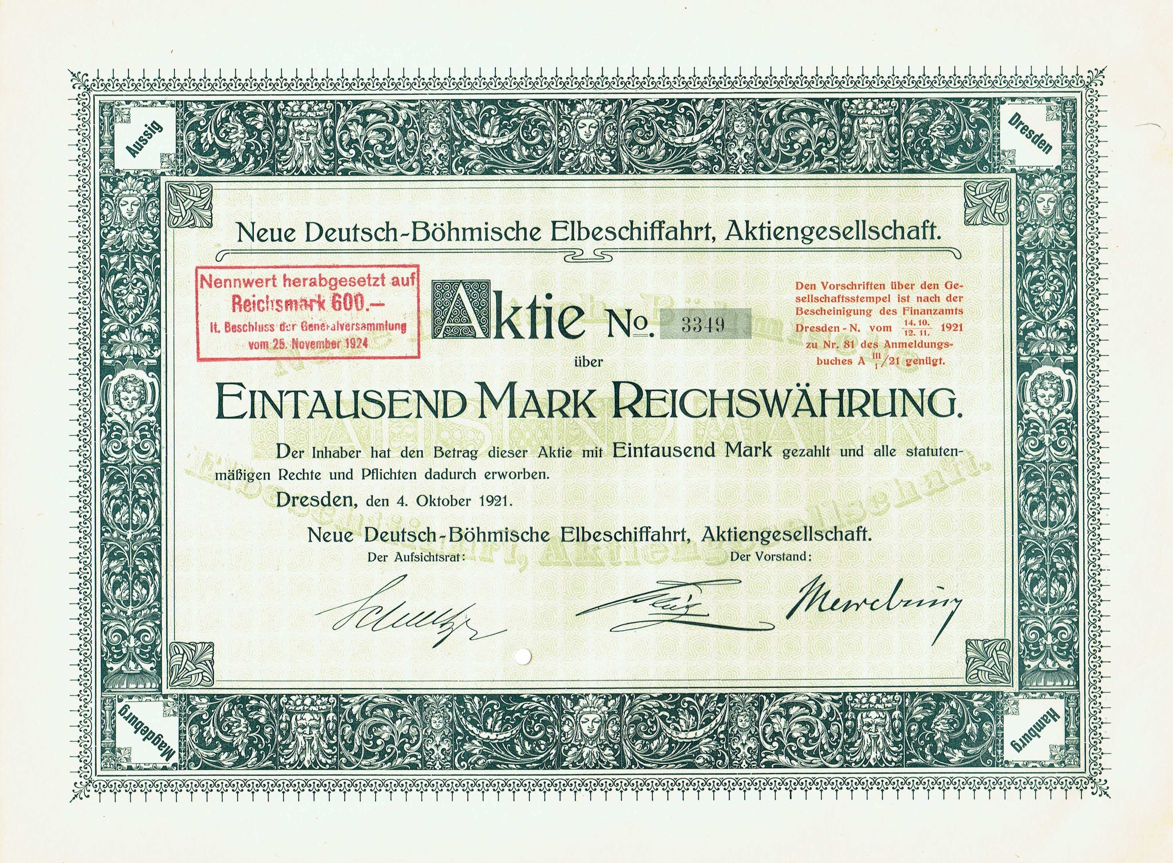 Share of the Neue Deutsch-Böhmische Elbschiffahrt AG, issued 4. October 1921